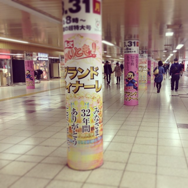 Waratte Iitomo! (森田一義アワー 笑っていいとも!) reference